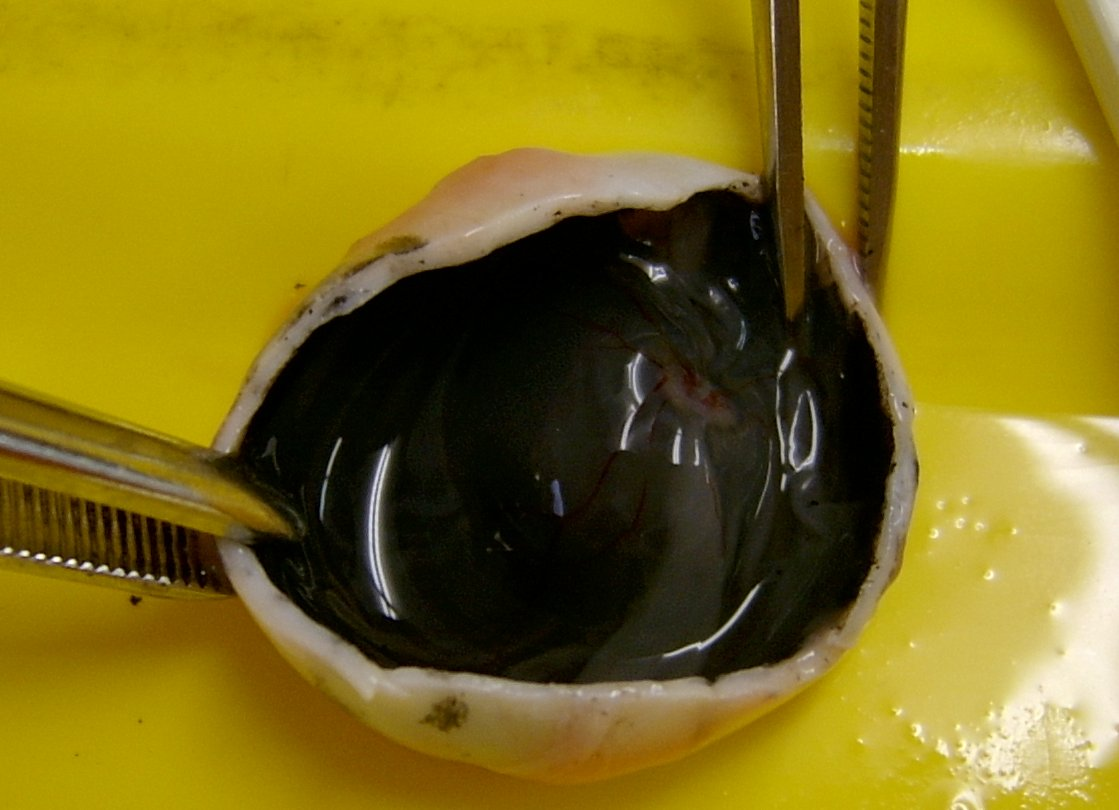 You see the eyeball, cut in the middle, looking at the back of the eyeball. The filling is still there.